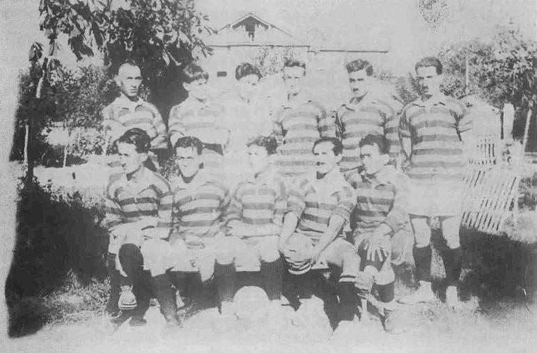 Fenerbahçe football team in 17 August 1921, before the match against İttihatspor. From left to right: Back row - Galip (Kulaksızoğlu), İsmet (Uluğ), Şekip (Kulaksızoğlu), Fâhir (Yeniçay), Ethem (Bellisan), Hasan Kâmil (Sporel) Front row - Sabih (Arca), Alaeddin (Baydar), Zeki Rıza (Sporel), Baldin, Ömer (Tanyeri)